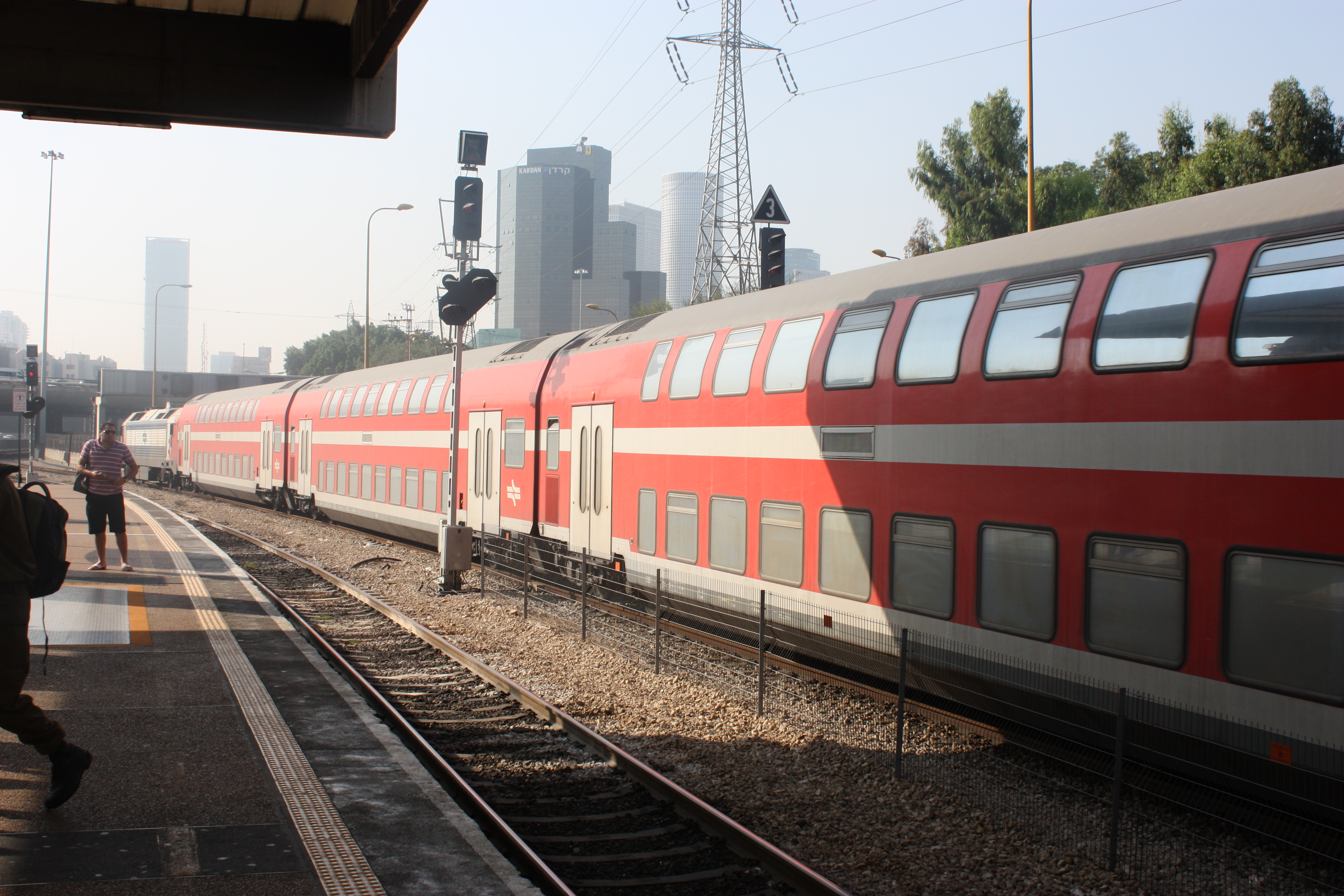 Bombardier Double-deck train in Tel Aviv, Israel